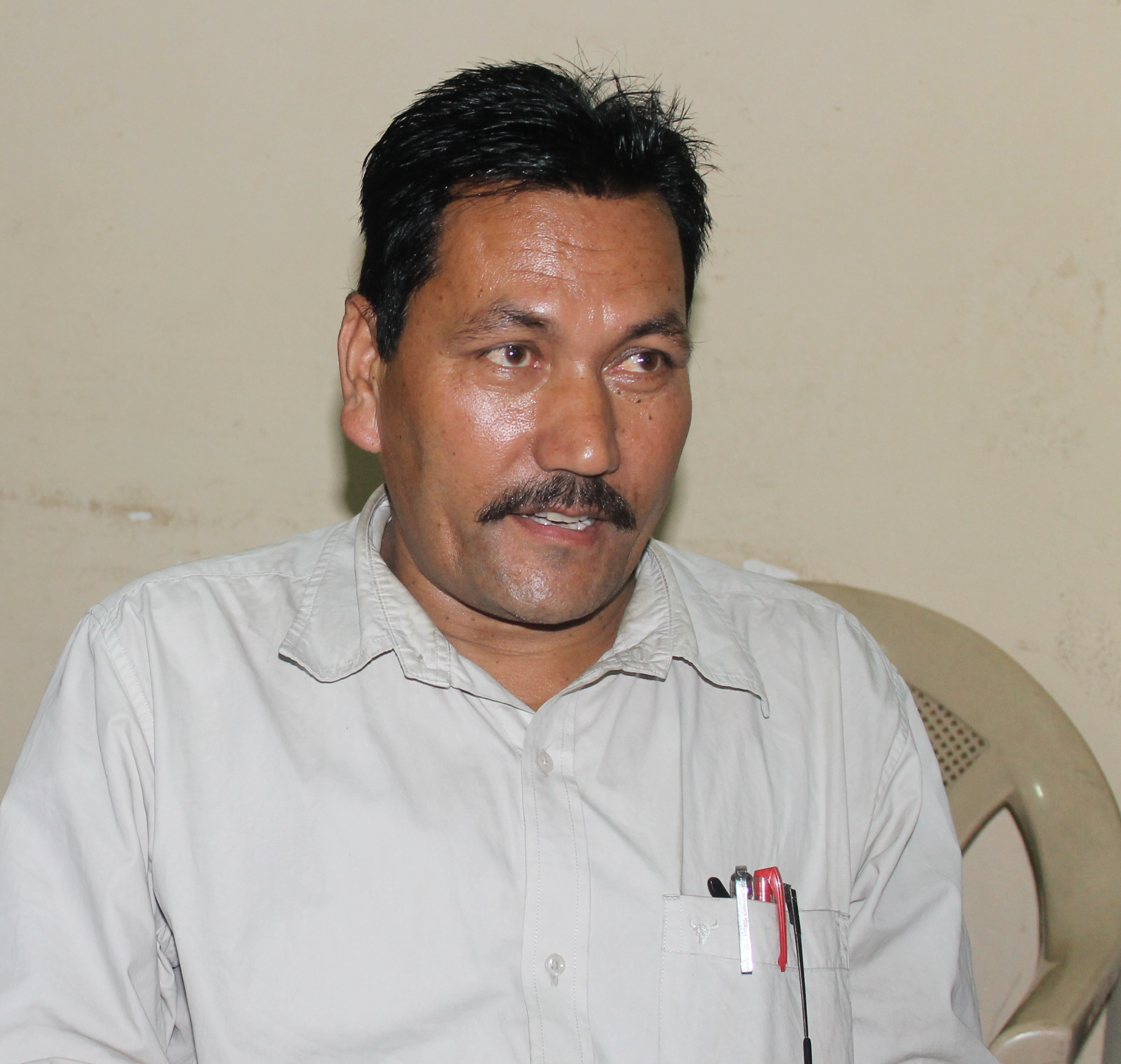 Member of dissolved Constituent Assembly from Kabhrepalanchok district of Nepal.